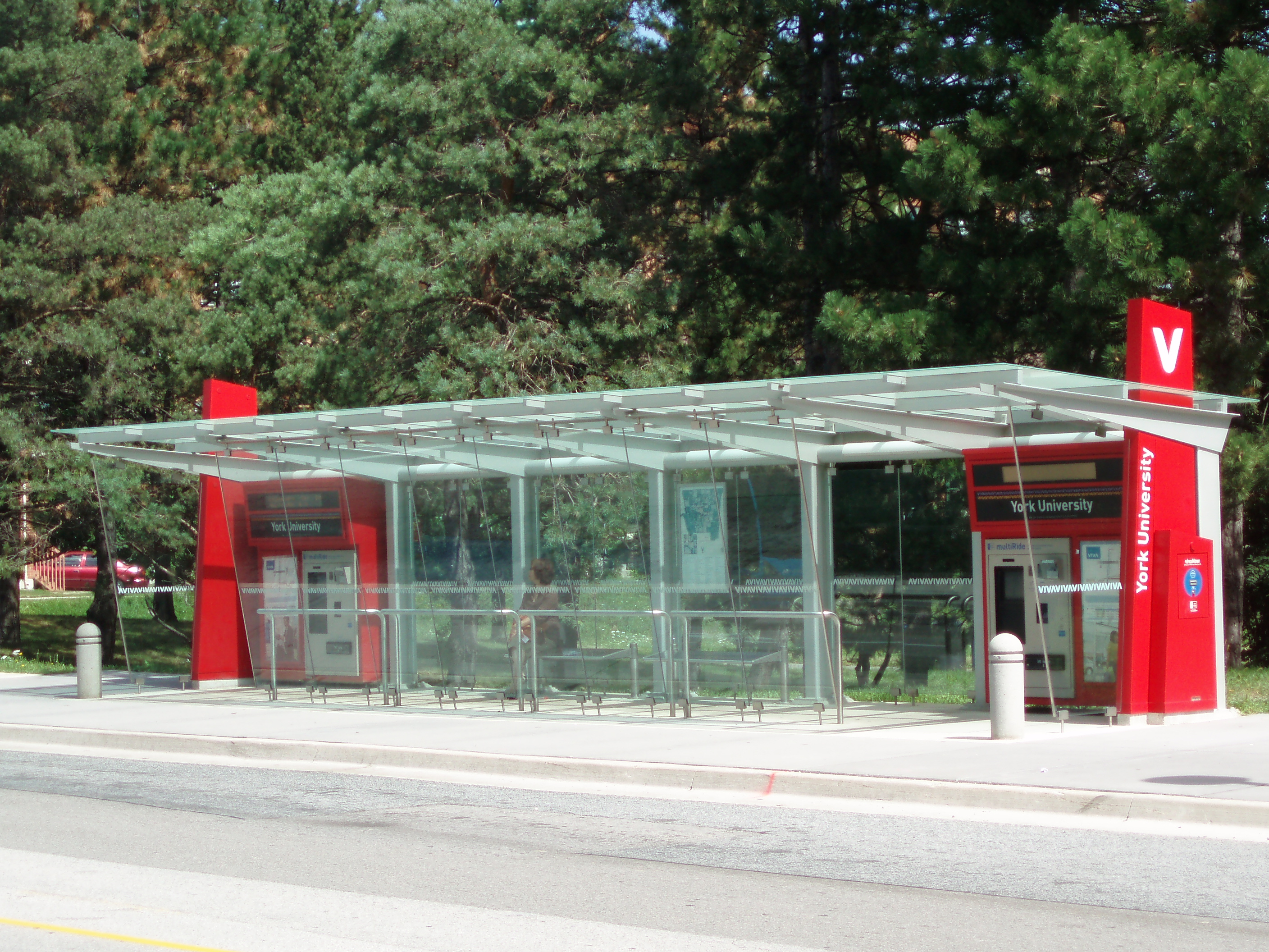 YRT/VIVA terminal at York University.